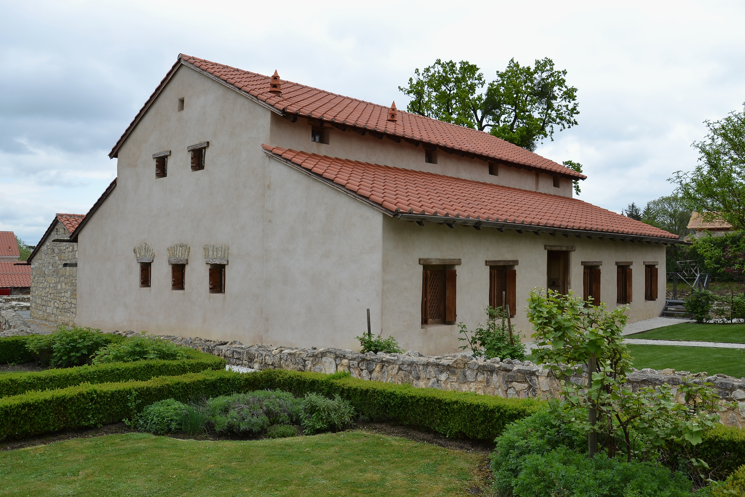 Open air museum Petronell, Austria - House of Lucius Maticeius Clemens